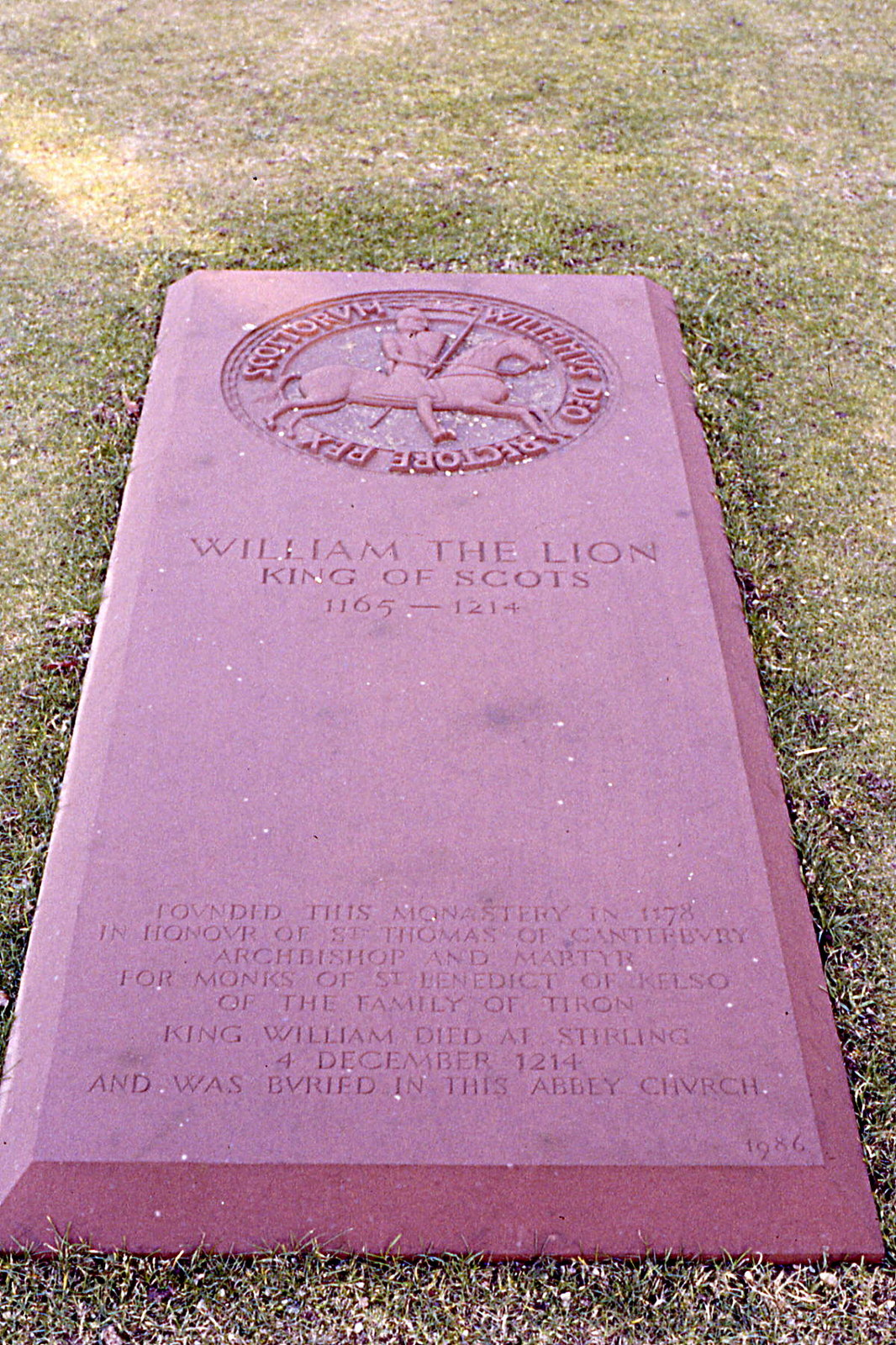 William The Lion A simple sandstone slab marks the burial place of William I, King of Scots, who reigned from 1165-1214 and who founded Arbroath Abbey as a memorial to his childhood friend, Thomas Becket, Archbishop of Canterbury.